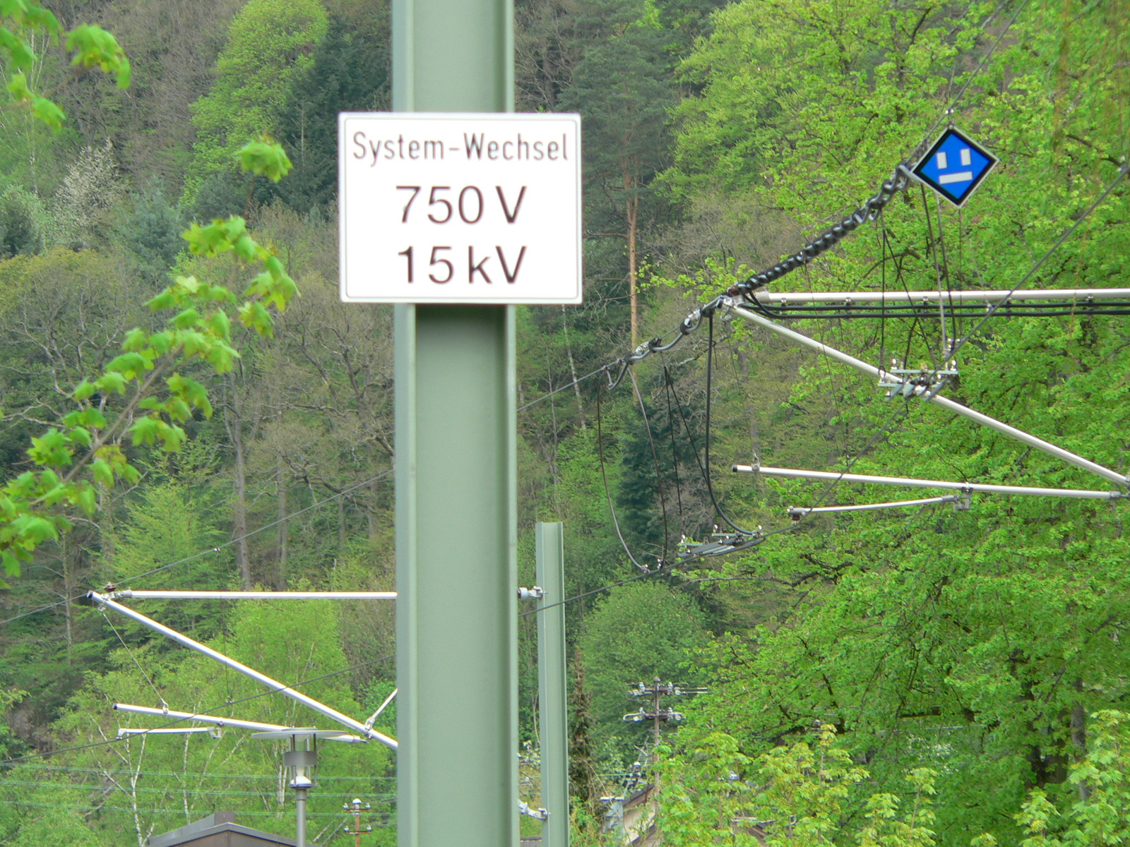 Change of voltage from 750 V to 15 kV in Bad Wildbad, Germany.